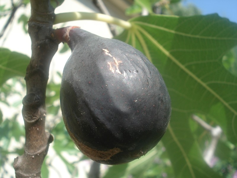 Breba of the Ficus carica fig variety Negronne in Vienna.